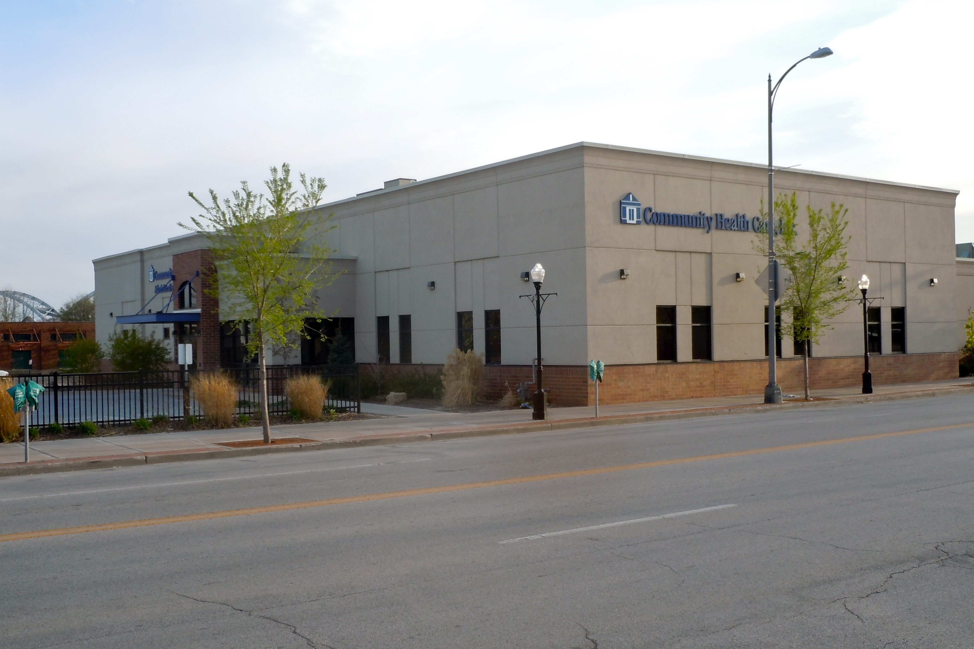 Community Health Center on 2nd street, Scott County, Davenport, Iowa. Site of the delisted NRHP Mueller Lumber Company and Riepe Drug Store/G. Ott Block on the NRHP since July 7, 1983, at 403 W. 2nd St. Was a three-story Romanesque Revial commercial and apartment building from 1871